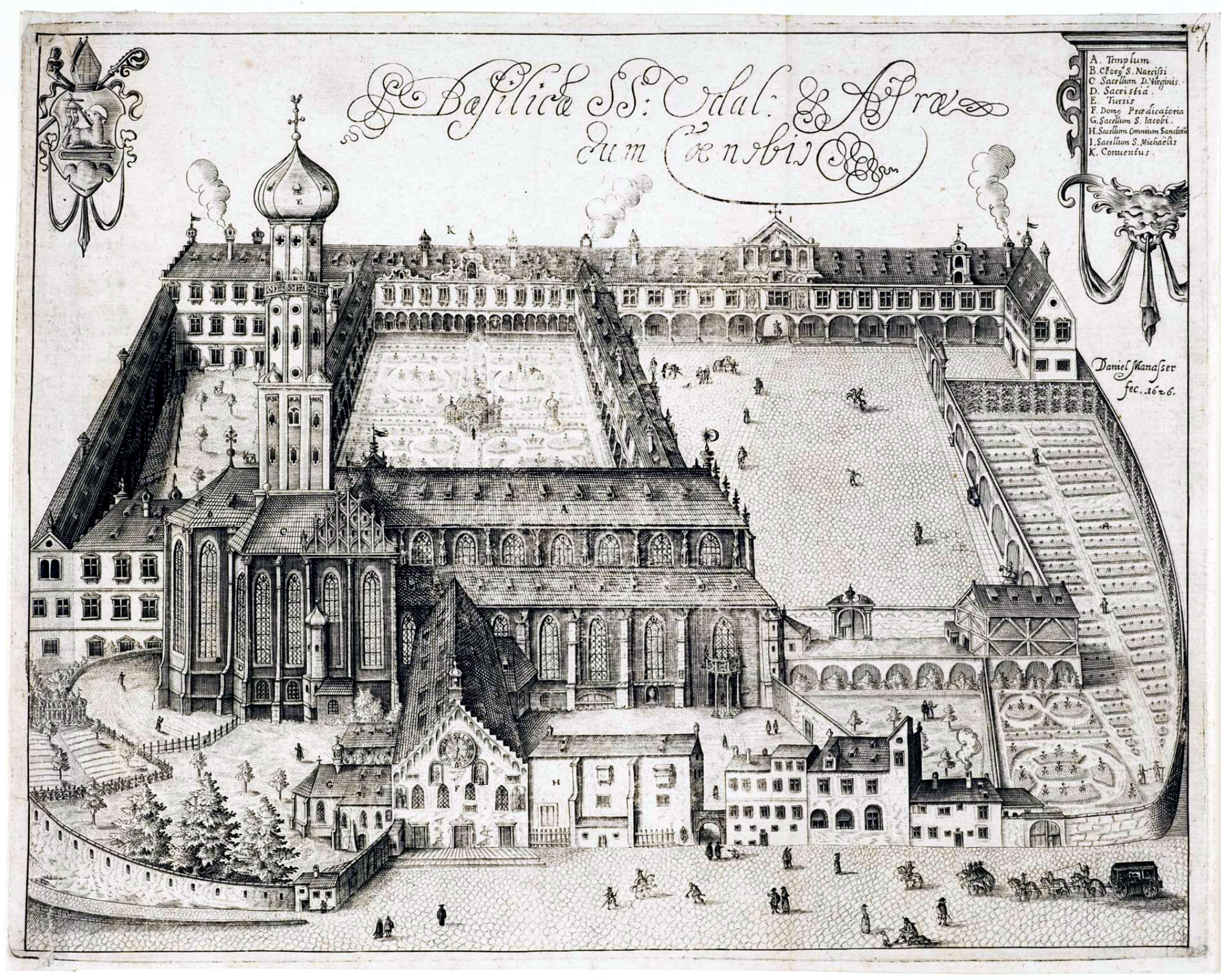 Illustration from c. 1627 showing St. Ulrich and St. Afra Abbey in Augsburg.